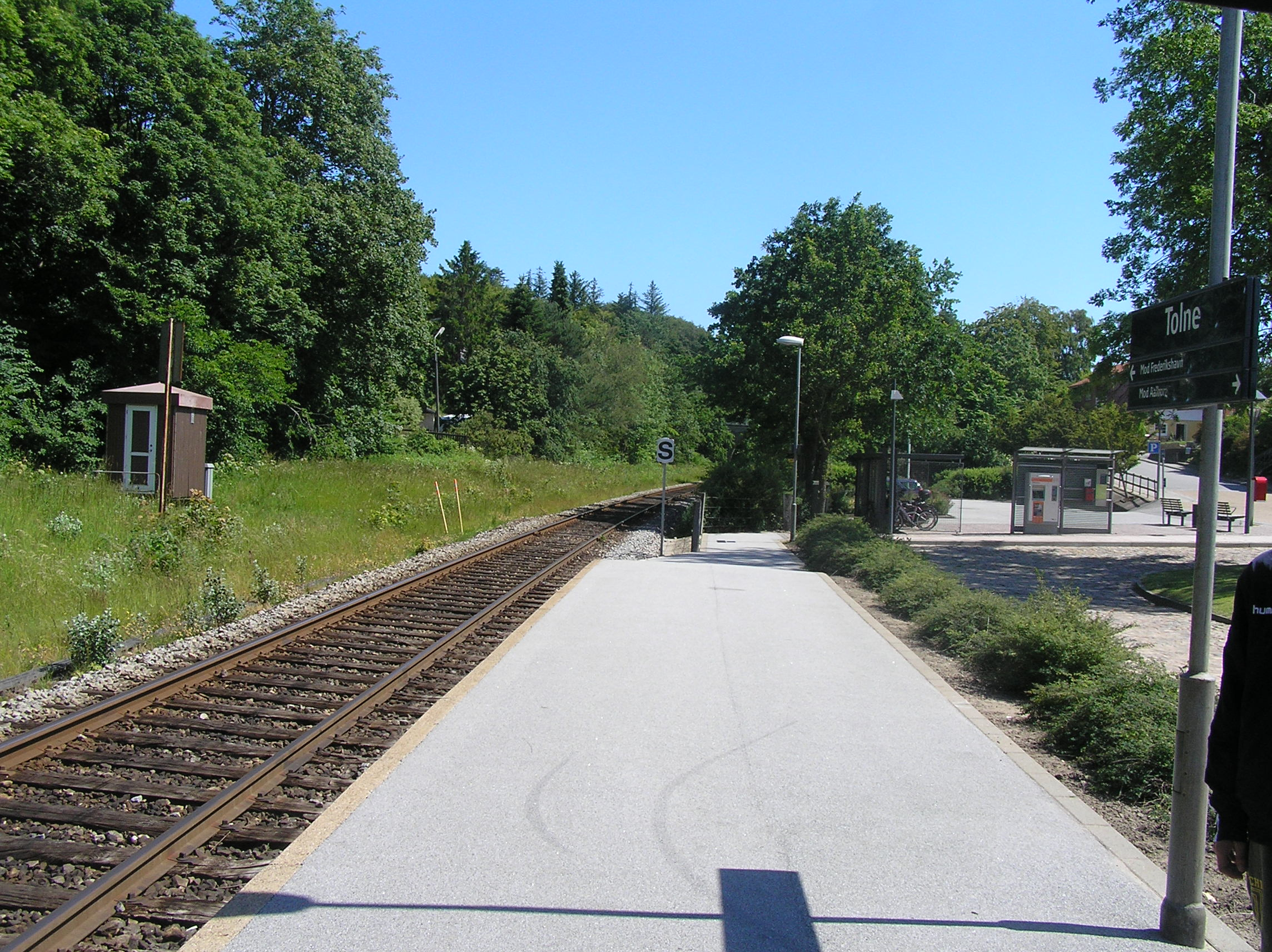 Tolne Station, Danish train station (east direction)